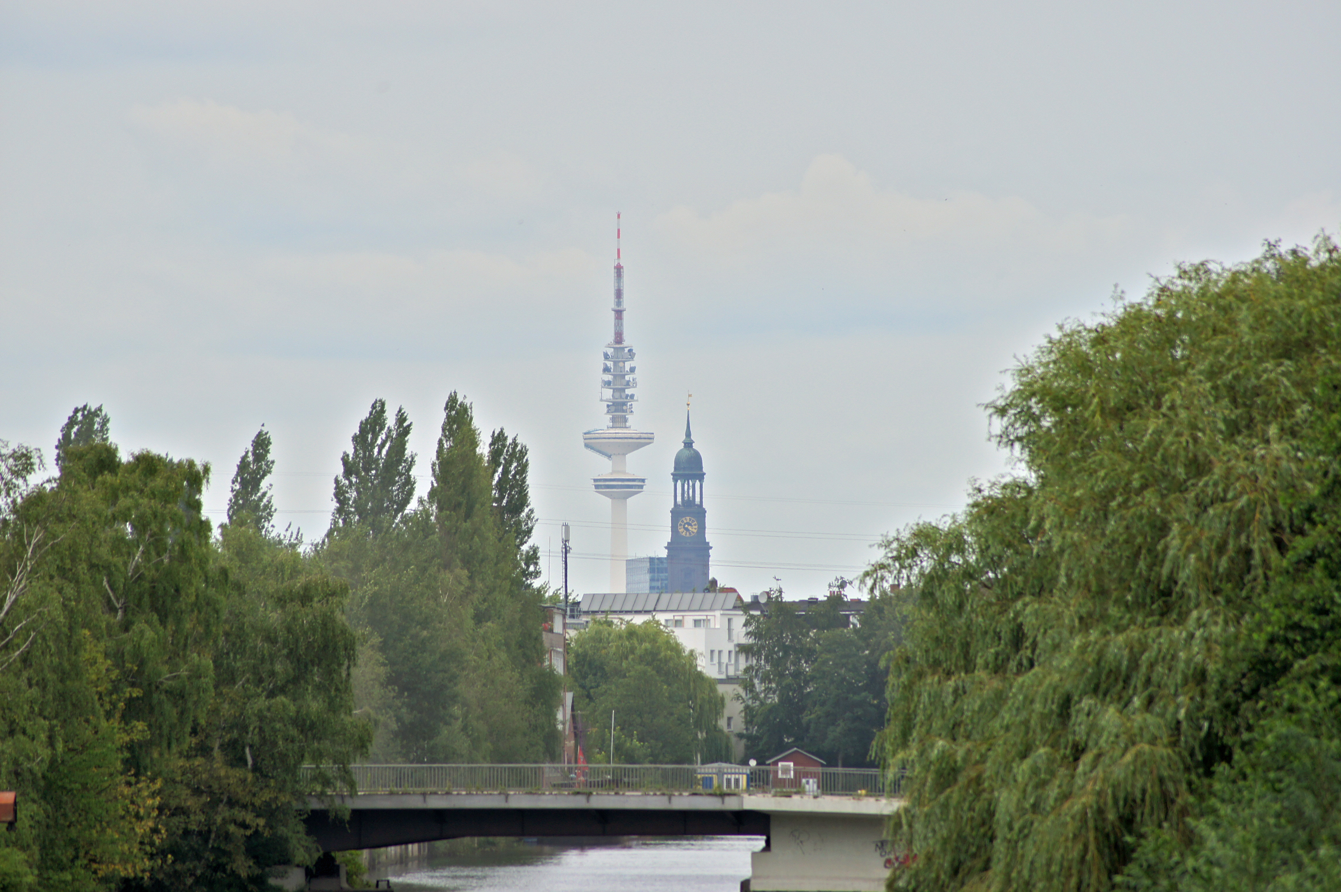 Hamburg (Wilhelmsburg), Germany: Veringkanal with the television and the St. Michaelis towers at the horizon